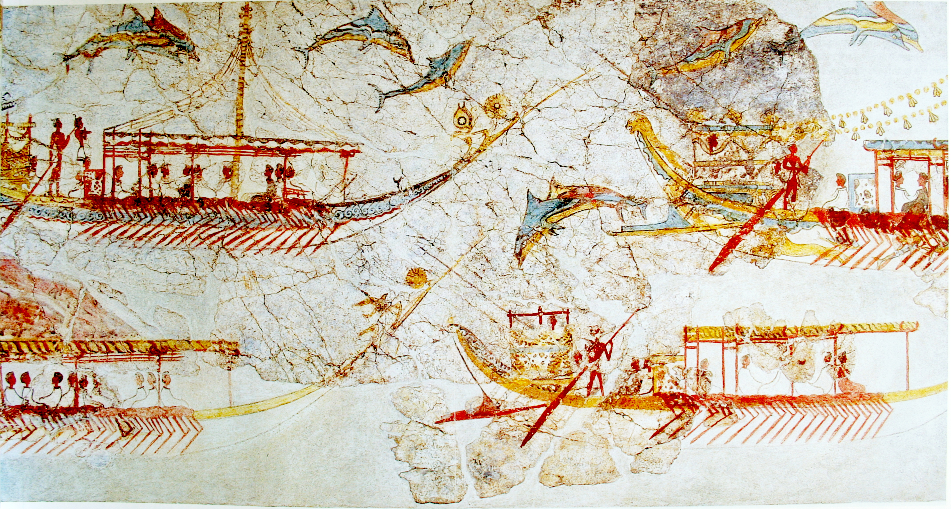 Ship procession fresco, part 2, Akrotiri, Greece.